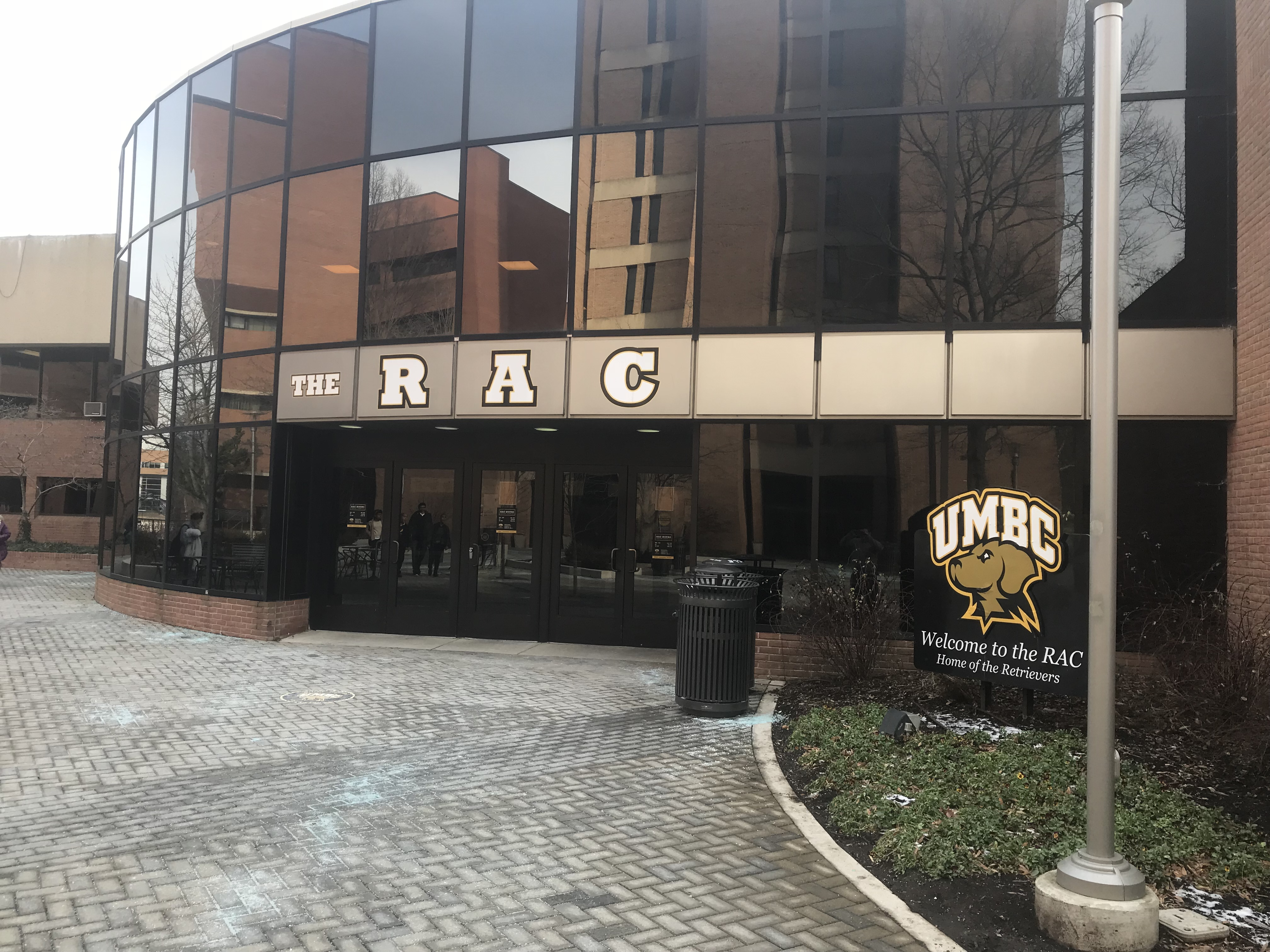 An exterior shot of the entrance to the Retriever Activities Center.